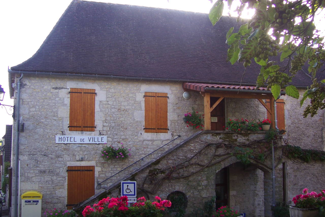 Picture of town hall of Montfaucon in Lot, France.